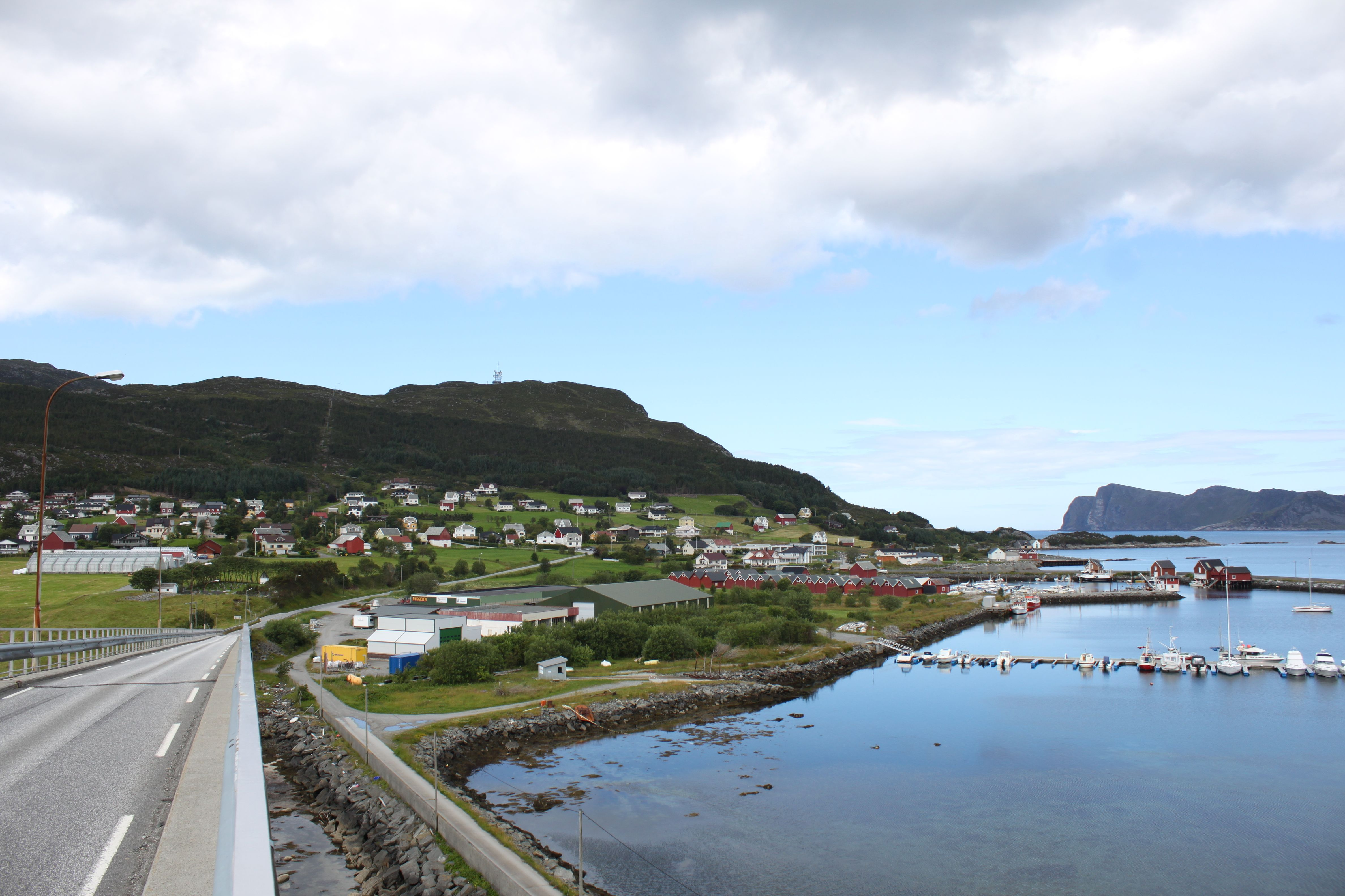 Picture of Kvalsund on Nerlandsøy in Herøy municipality, Norway on 28 July 2012. Taken from the Kvalsund Bridge.